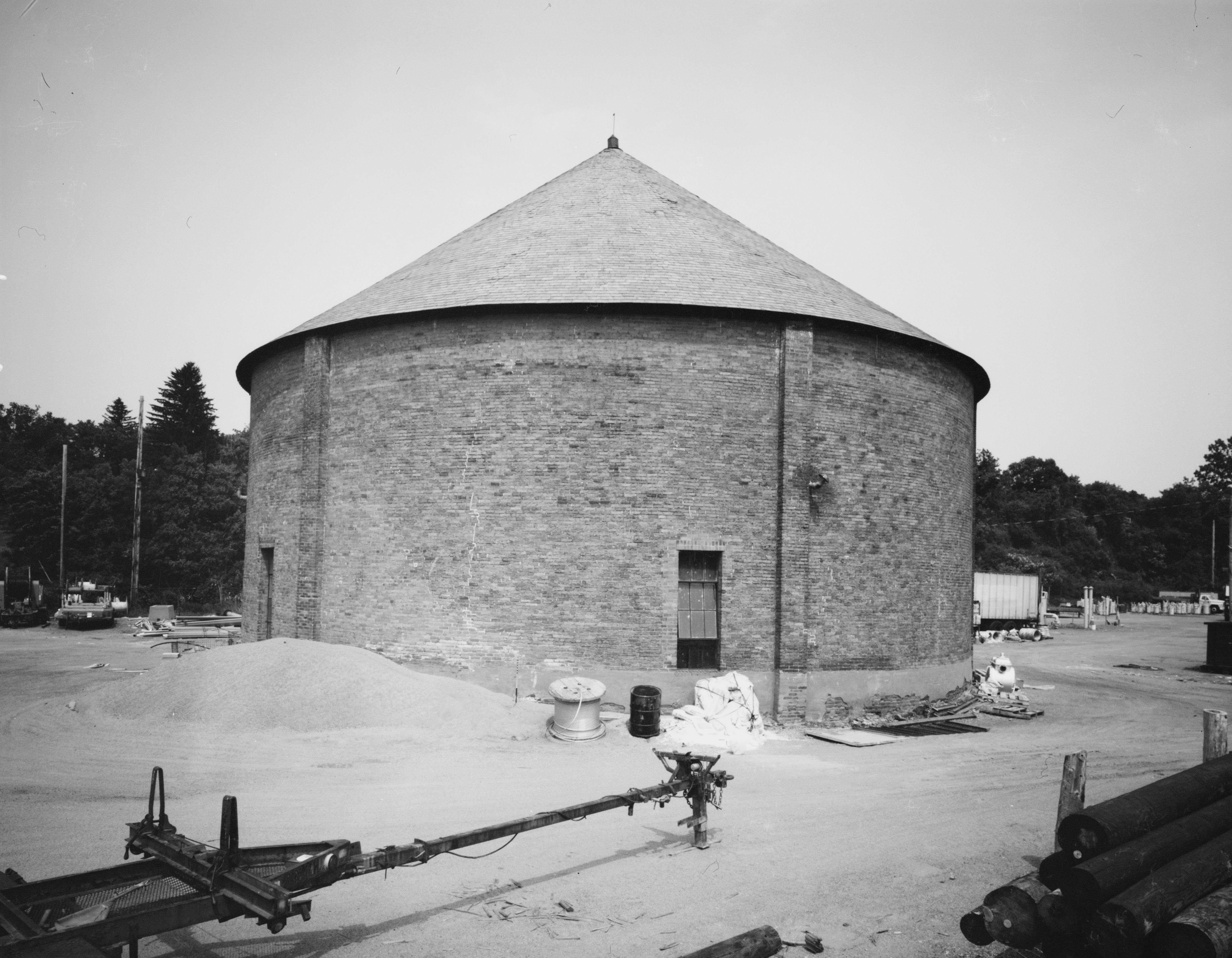 Saratoga Gas Light Company, Gasholder No. 2, Niagara Mohawk Power Corporation Substation Facili, Saratoga Springs (Saratoga County, New York)